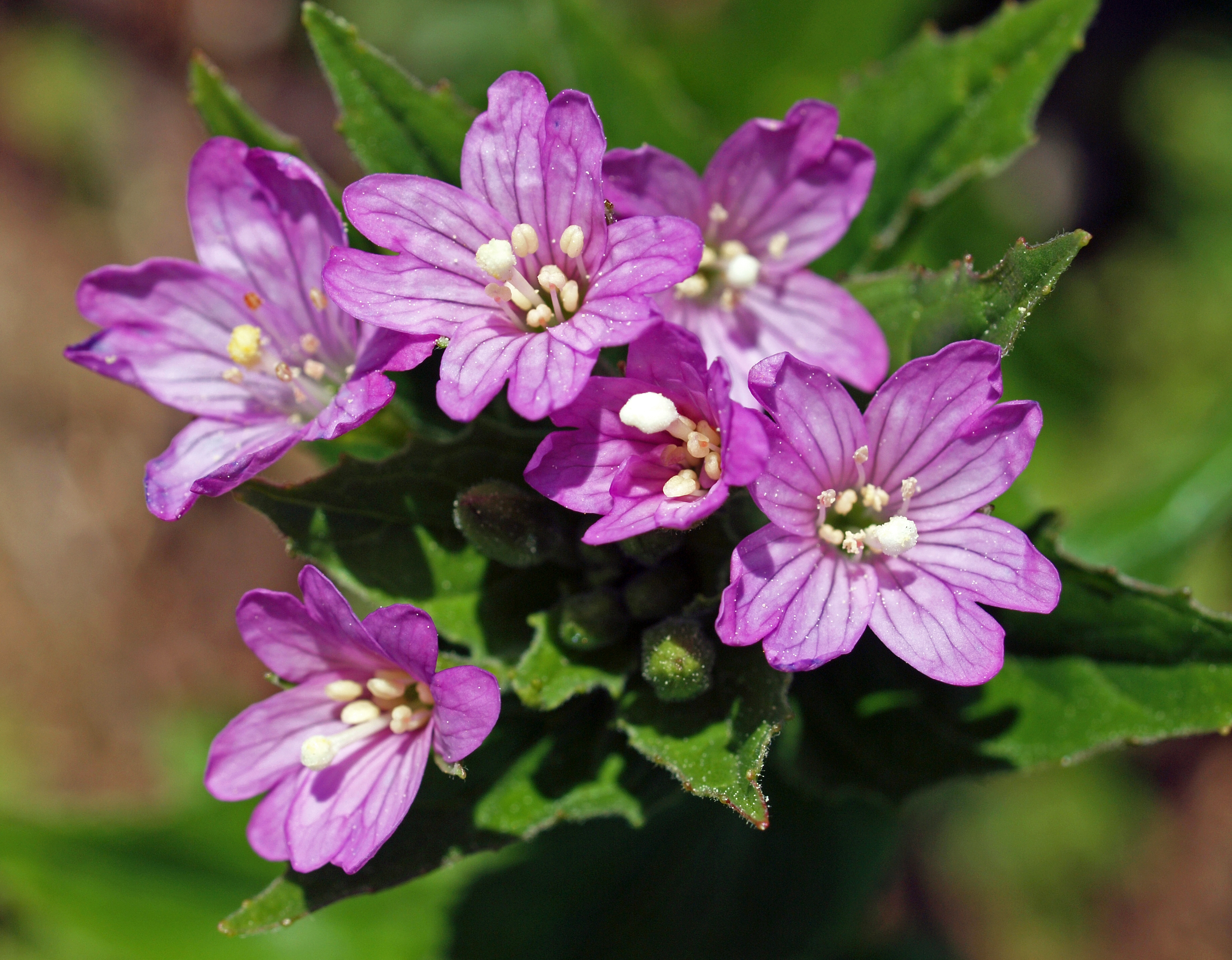 Epilobium alpestre, flowers; Austria, Styria, Hochschwab, Aflenzer Buergeralm, about 1750 m